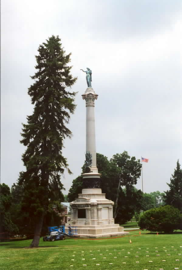 photo by Einar Einarsson Kvaran - NY State Monument, Gettysburg PA, Caspar Buberl